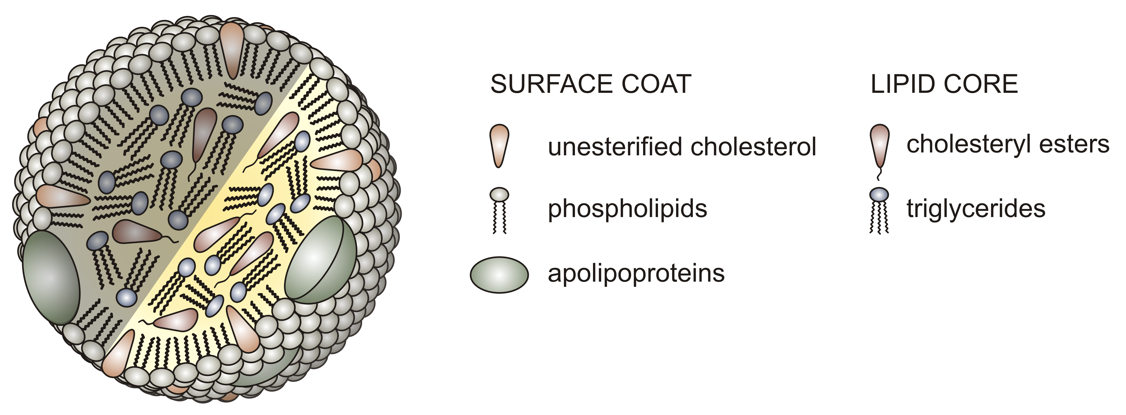 Lipoprotein particles are composed of a lipid core containing cholesteryl esters and triglycerides, and a surface coat of phospholipids, unesterified cholesterol and apolipoproteins.